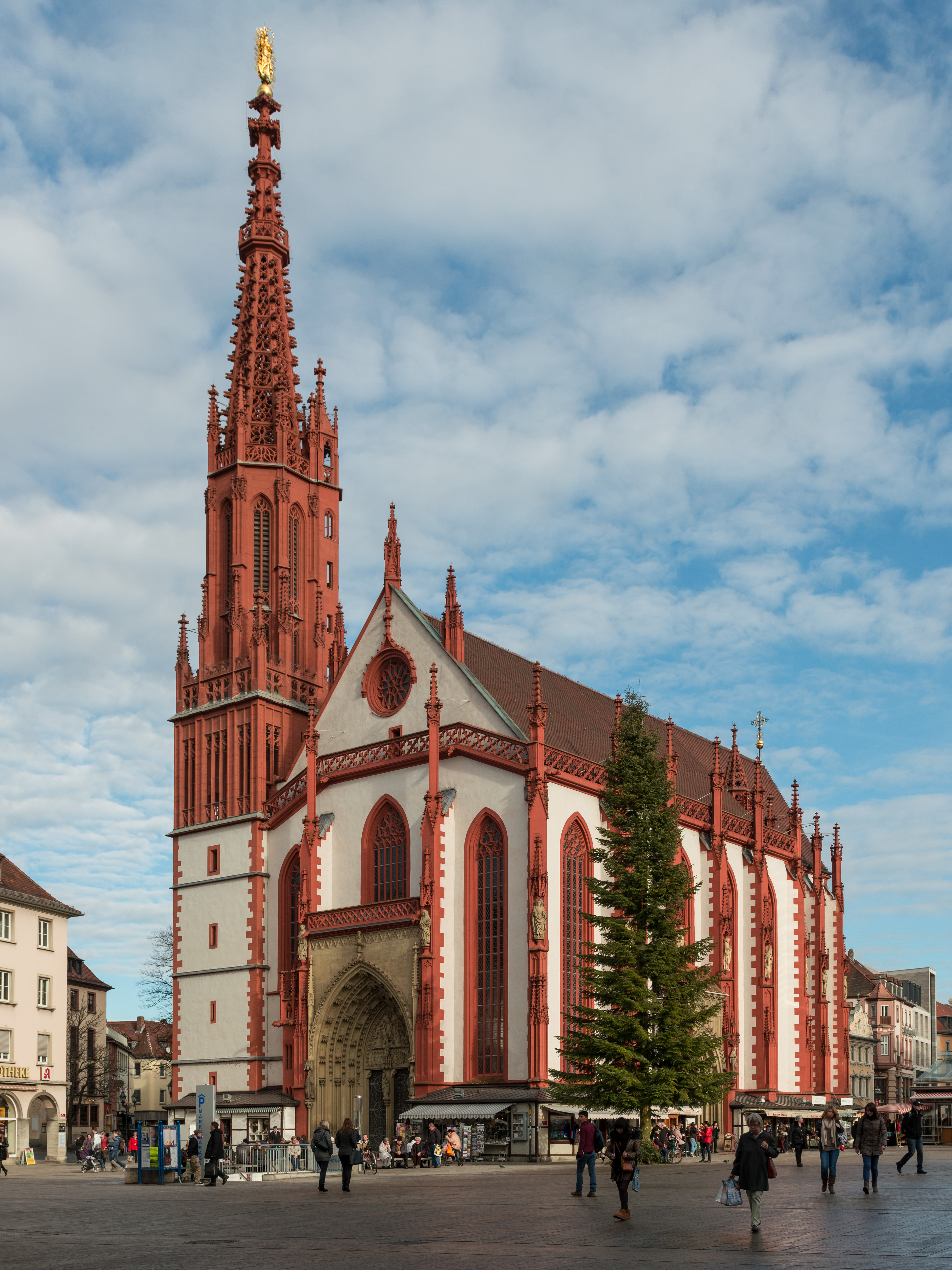 The Marienkapelle in Würzburg as seen from south-west. The chapel was built by the citizens of Würzburg from 1377 to ~1480 in a Gothic style. During the bombing of Würzburg on March 16, 1945, the building was heavily damaged, but has been restored in the decades after. The chapel is notable for the works of Tilman Riemenschneider who created several of the statues that decorate the building.